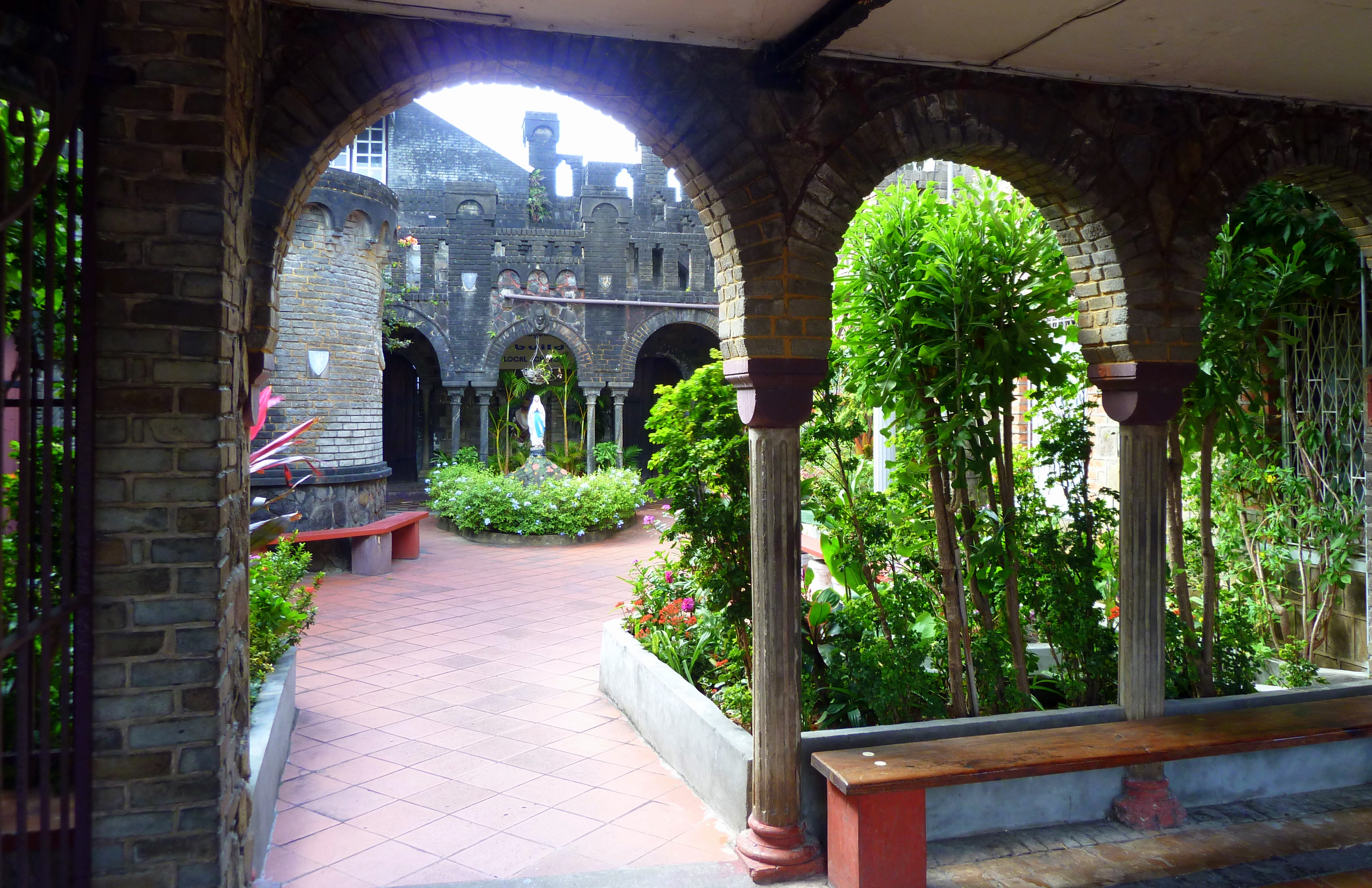 St. Vincent, Karibik - St. Mary's R.C. Cathedral – Garden Courtyard